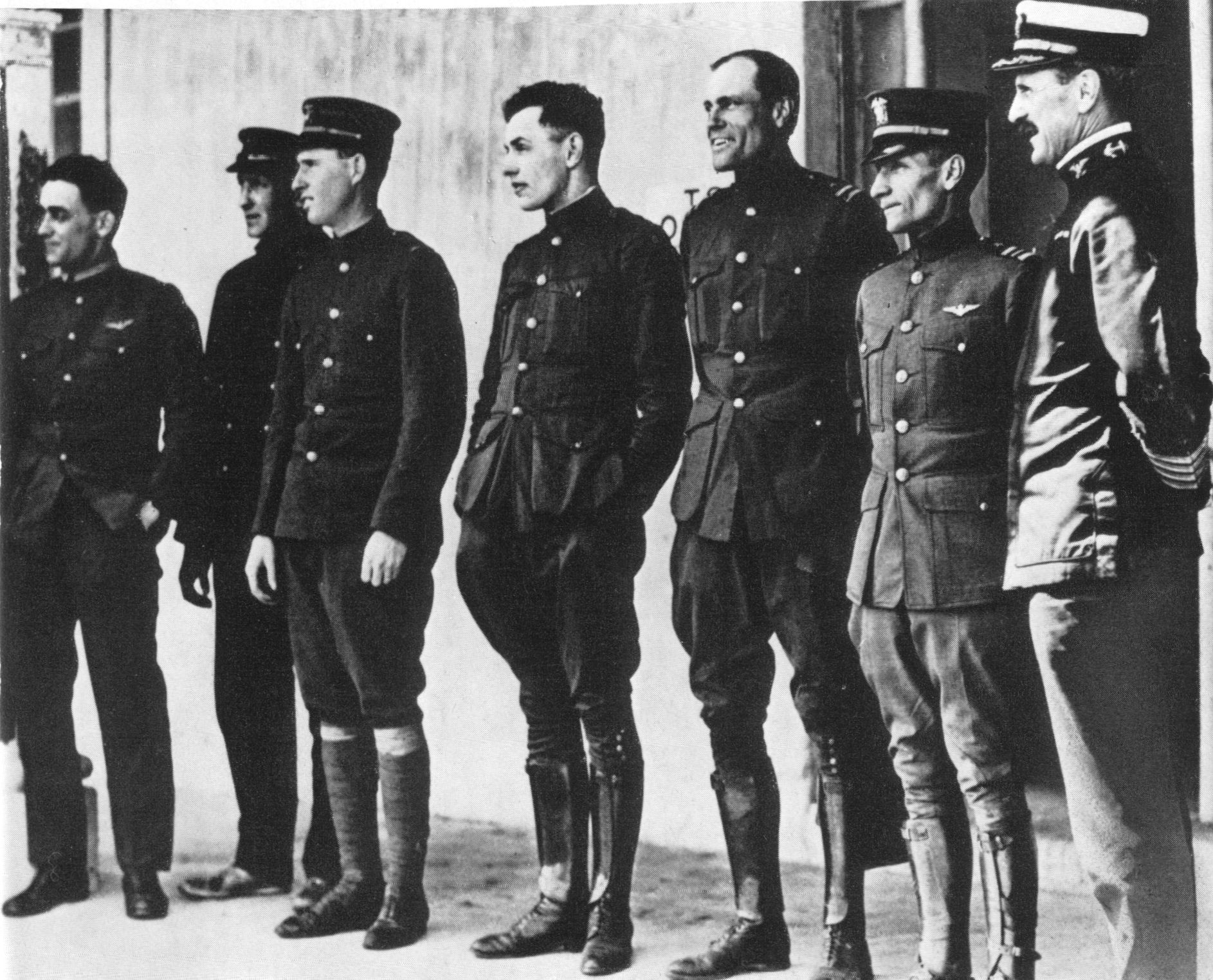 Crew members of the NC-4, first trans-Atlantic flight, 1919. From left to right: LT Elmer F. Stone, U.S. Coast Guard (Pilot); Chief Petty Officer Eugene C. Rhoads, USN; LTJG Walter Hinton, USN (CoPilot); ENS Herbert C. Rodd, USN (Radio Operator); LT James L. Breese, USN (Engineer), LCDR Albert Cushing Read, USN (Aircraft Commander/Navigator). An the very right, Capt. R.H. Jackson was not a crew member of the historic flight.